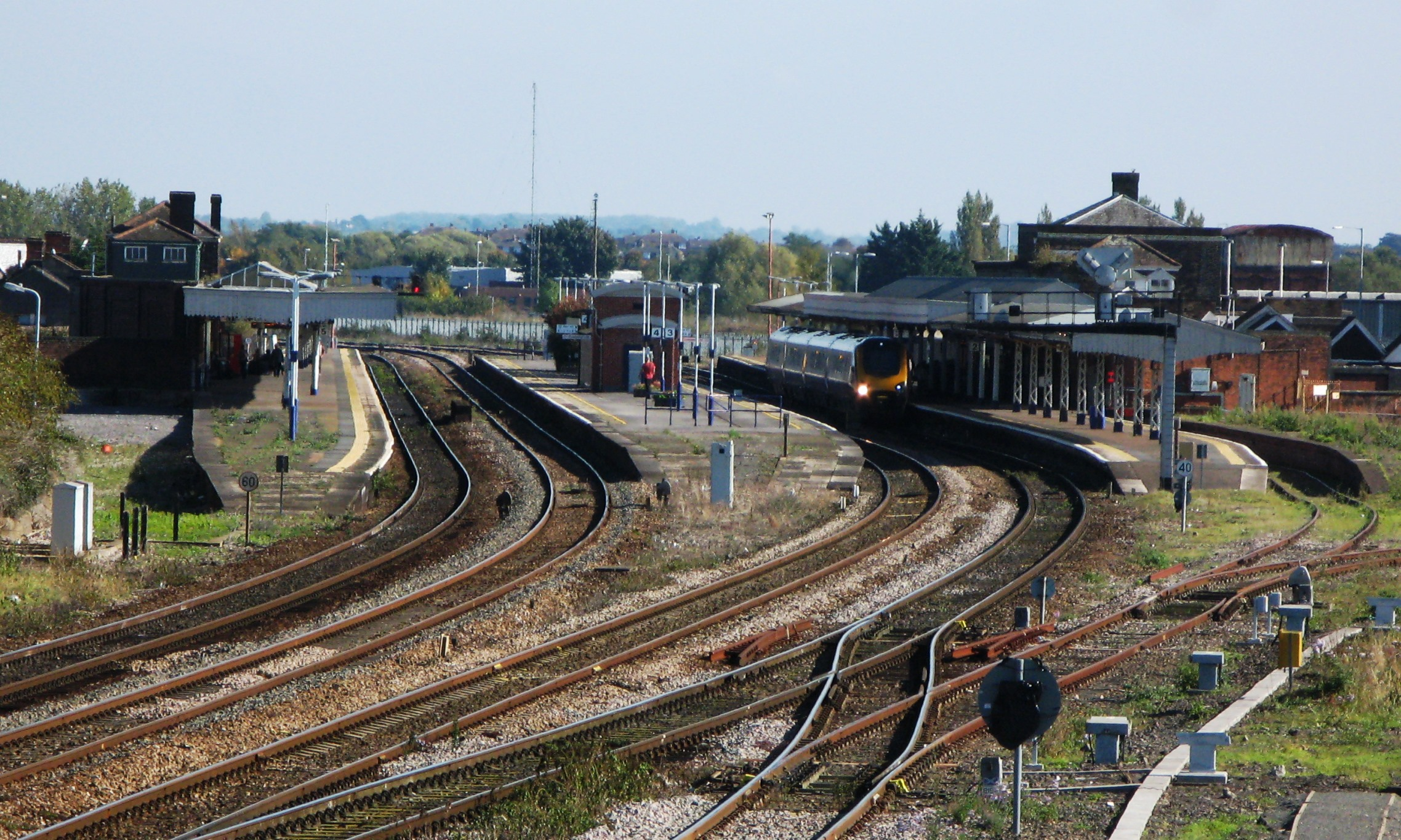 Taunton railway station, Somerset, England with a train to Plymouth. The view is from the public footbridge at the west end of the station and shows Platform 5 on the left; CrossCountry unit 220004 is standing in Platform 2 which is the oldest platform of the station.